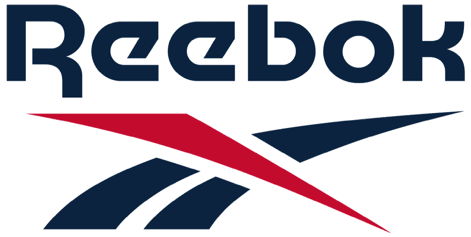 Logo of Reebok.